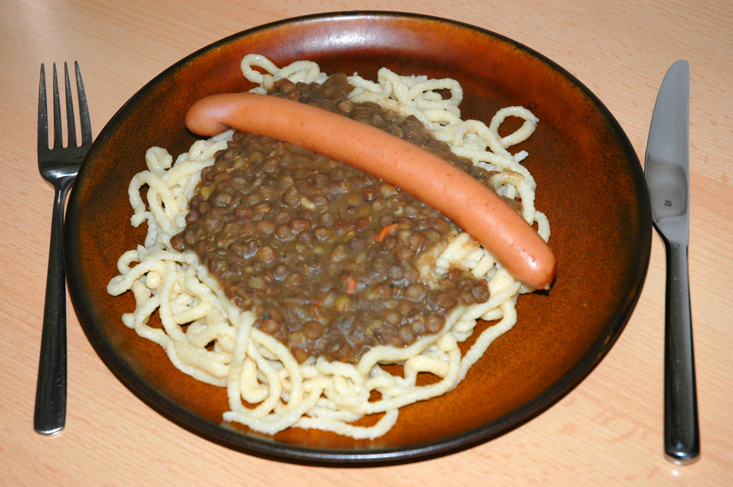 Lentils and spätzle (noodles typical of Southern Germany).